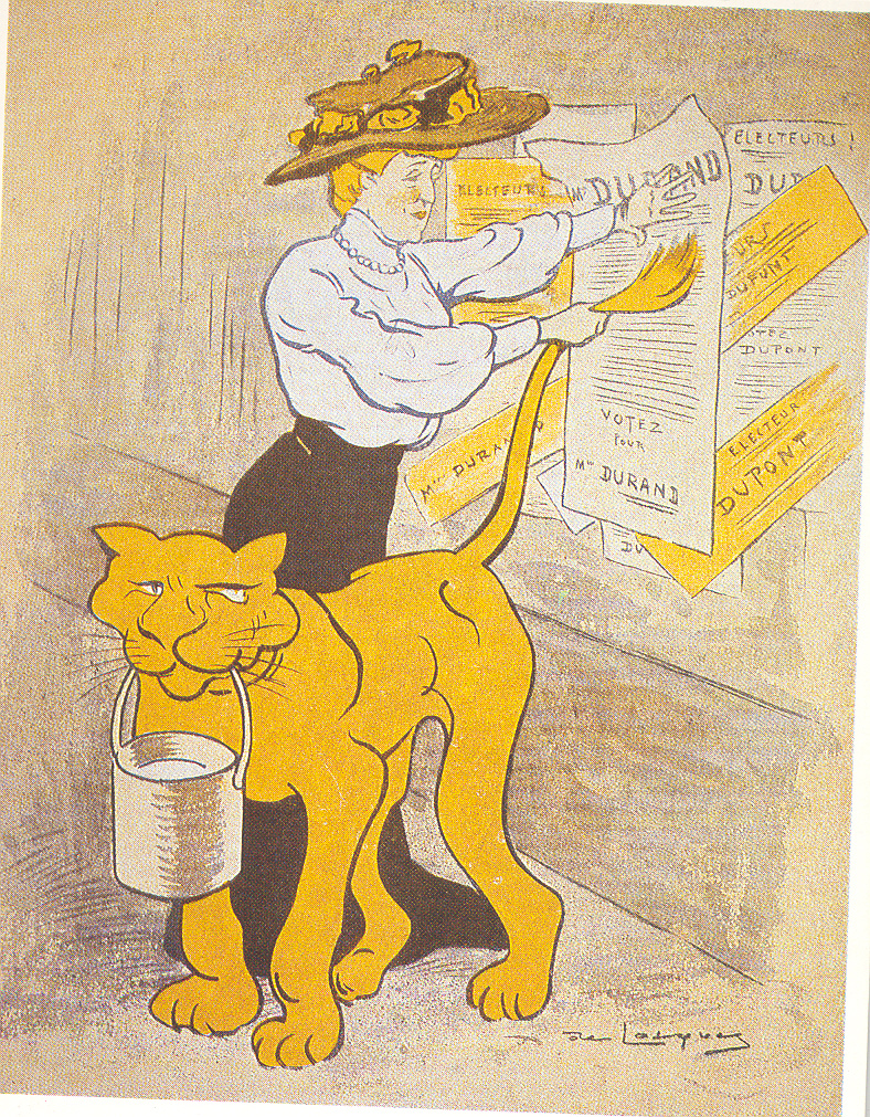 Marguerite Durand, candidate for election in 1910, campaigns with her lioness. Design by Daniel Thourounde de Losques, appeared in "Fantasio". No. 89, April 1, 1910